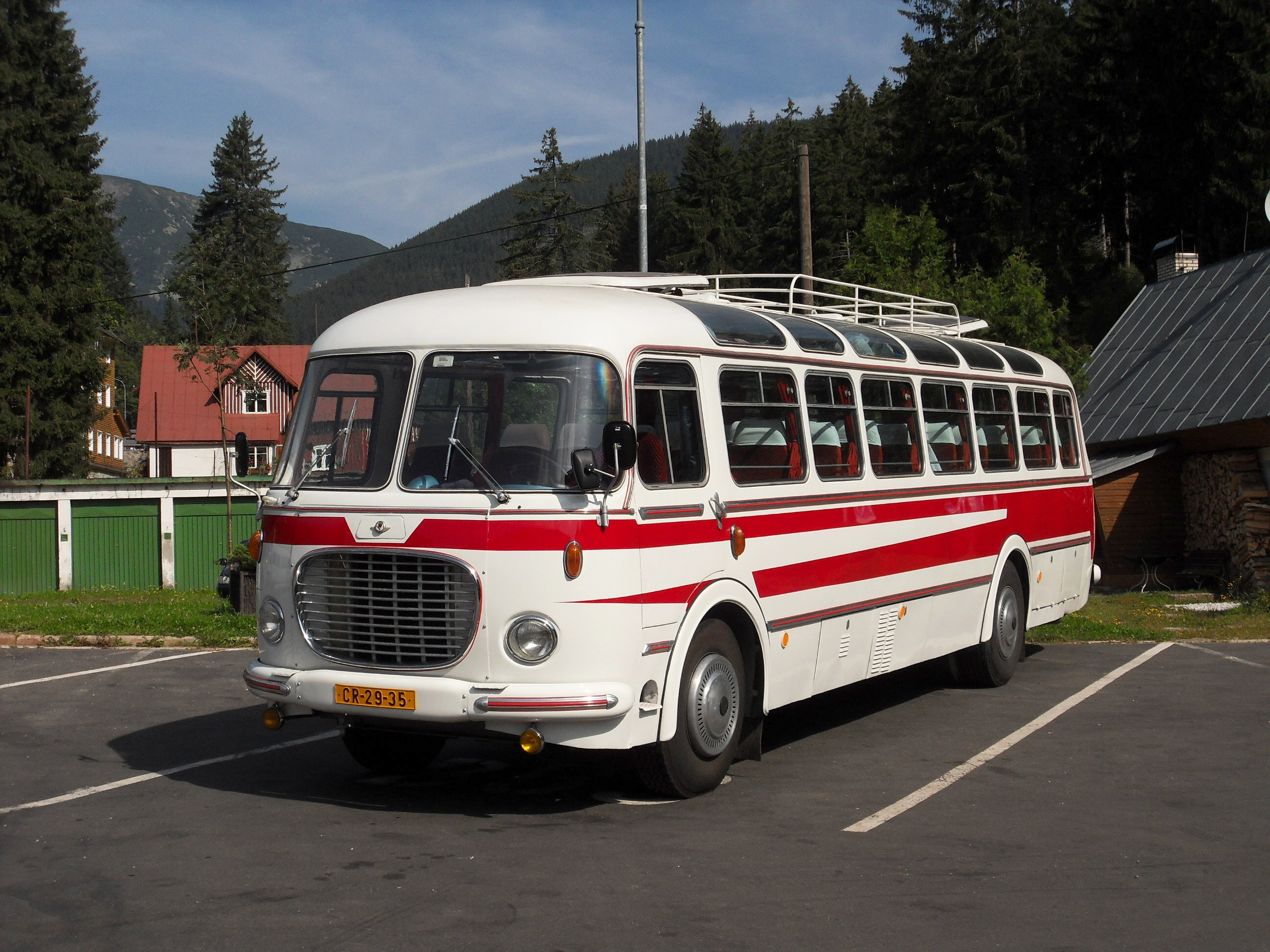 Škoda 706 RTO LUX bus, Pec pod Sněžkou, Trutnov District, Czech Republic - Google Maps - Google Earth